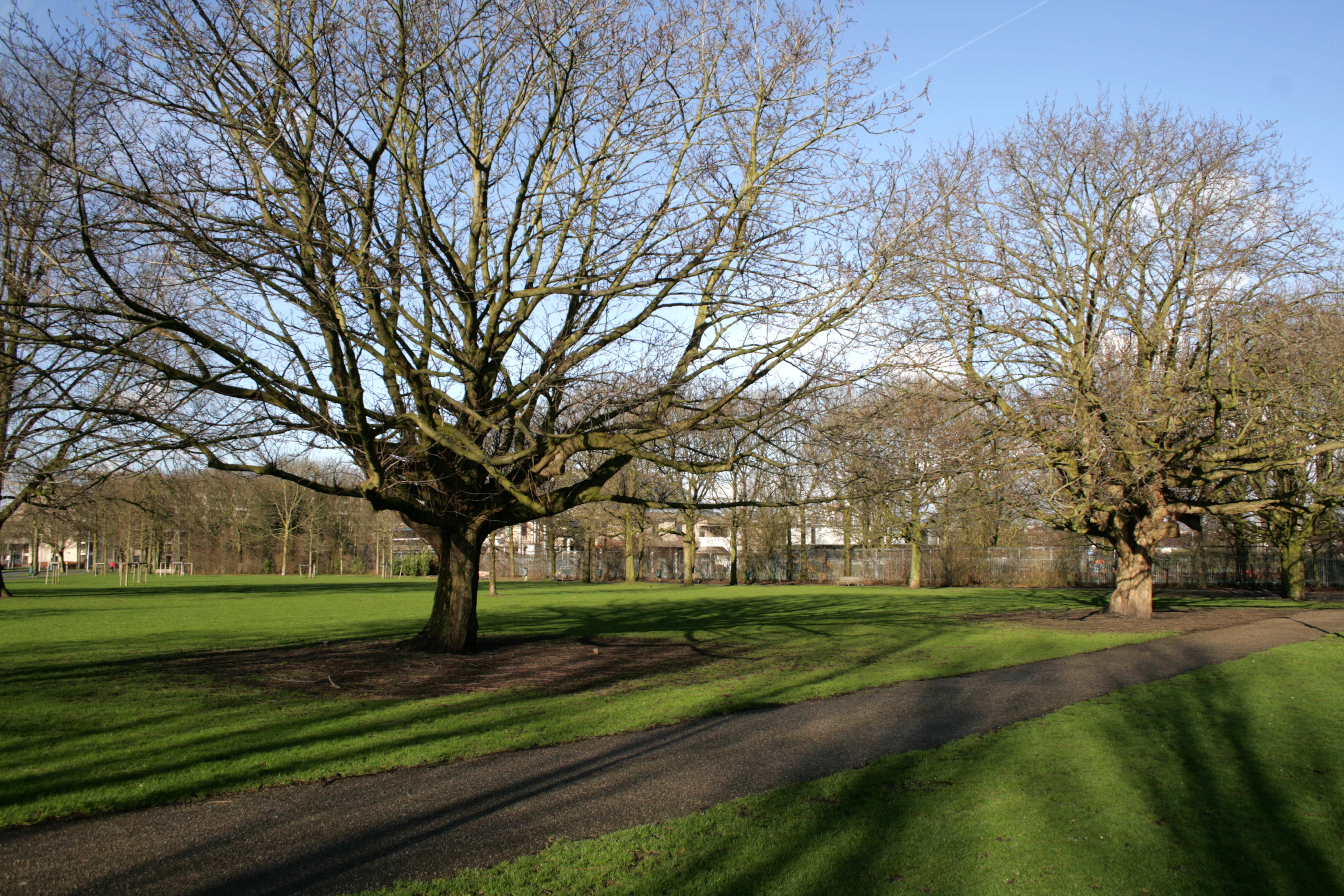 Southern part of the Martin Luther King park in Amsterdam.